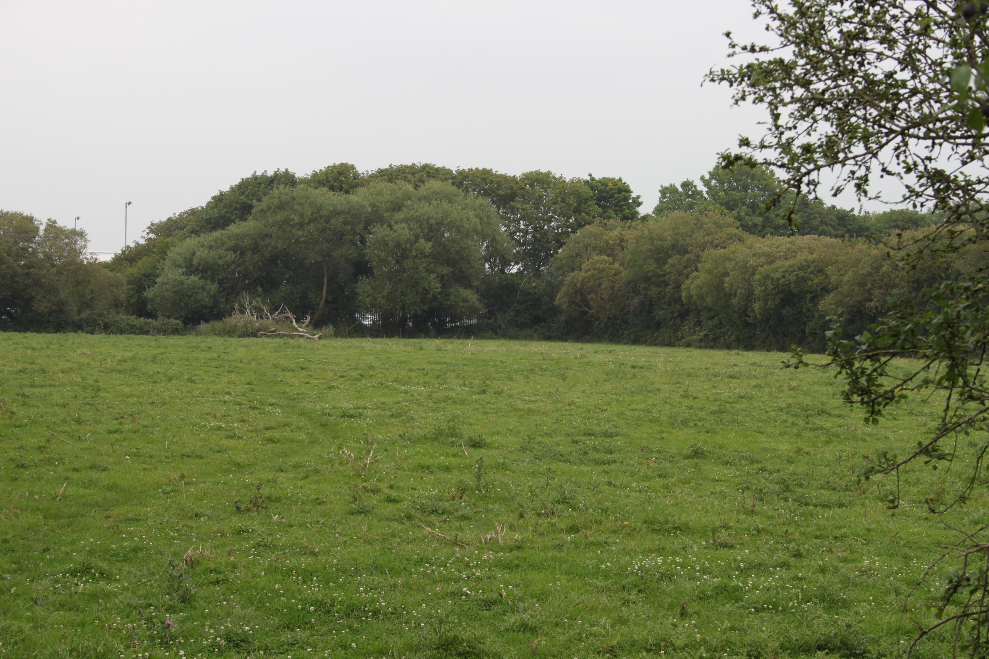 Down End Castle, near Dunball, Somerset